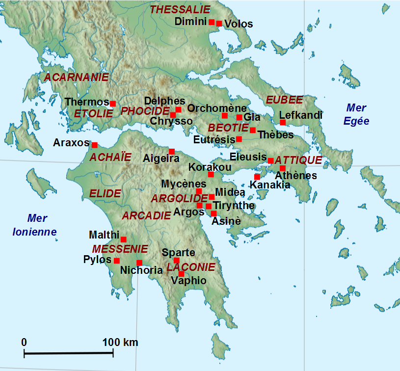 Location map of the main archaeological sites of Mycenaean Continental Greece.